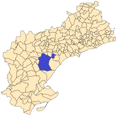 Tivissa